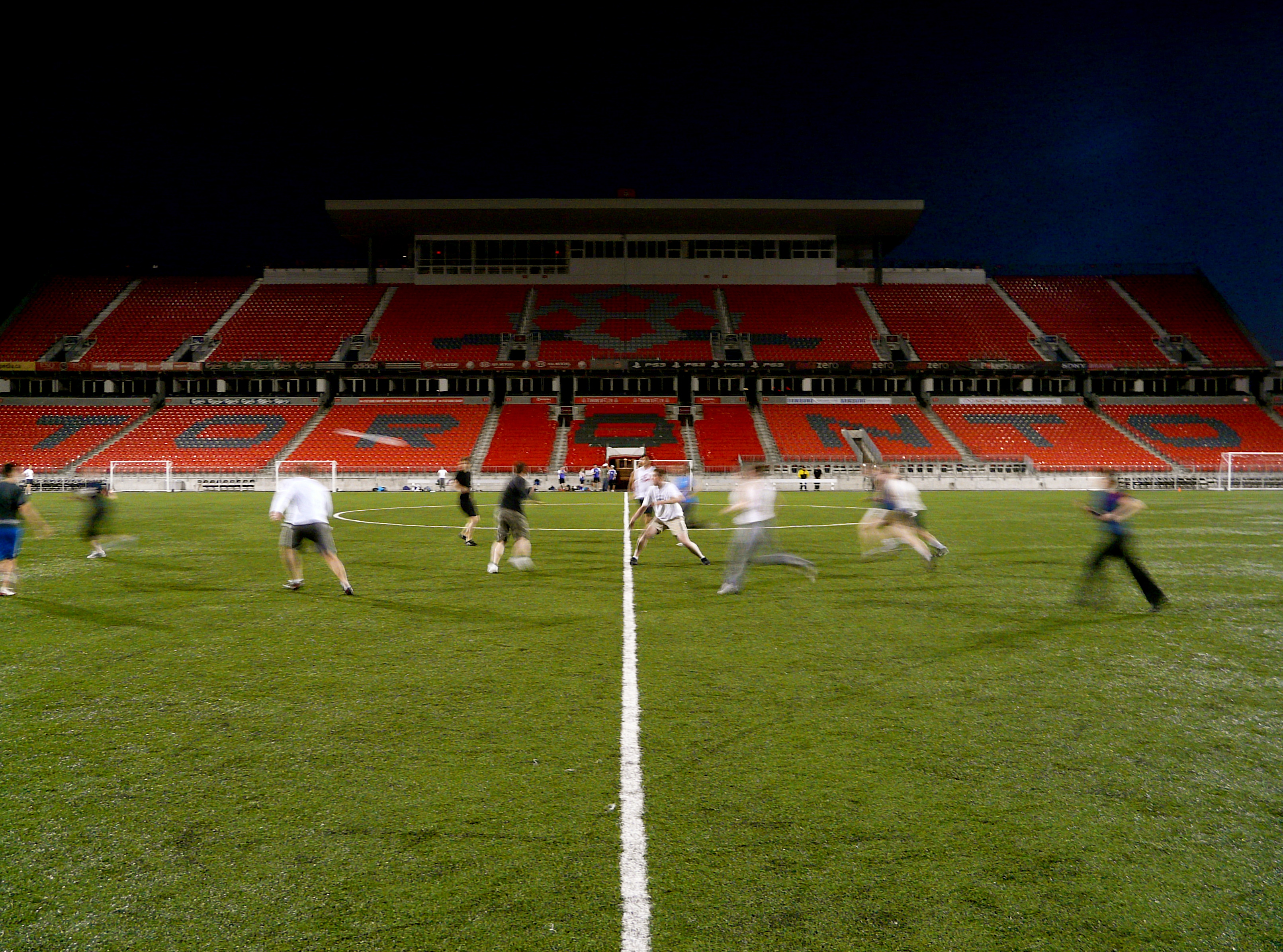 Ultimate frisbee game at BMO fields in Toronto.